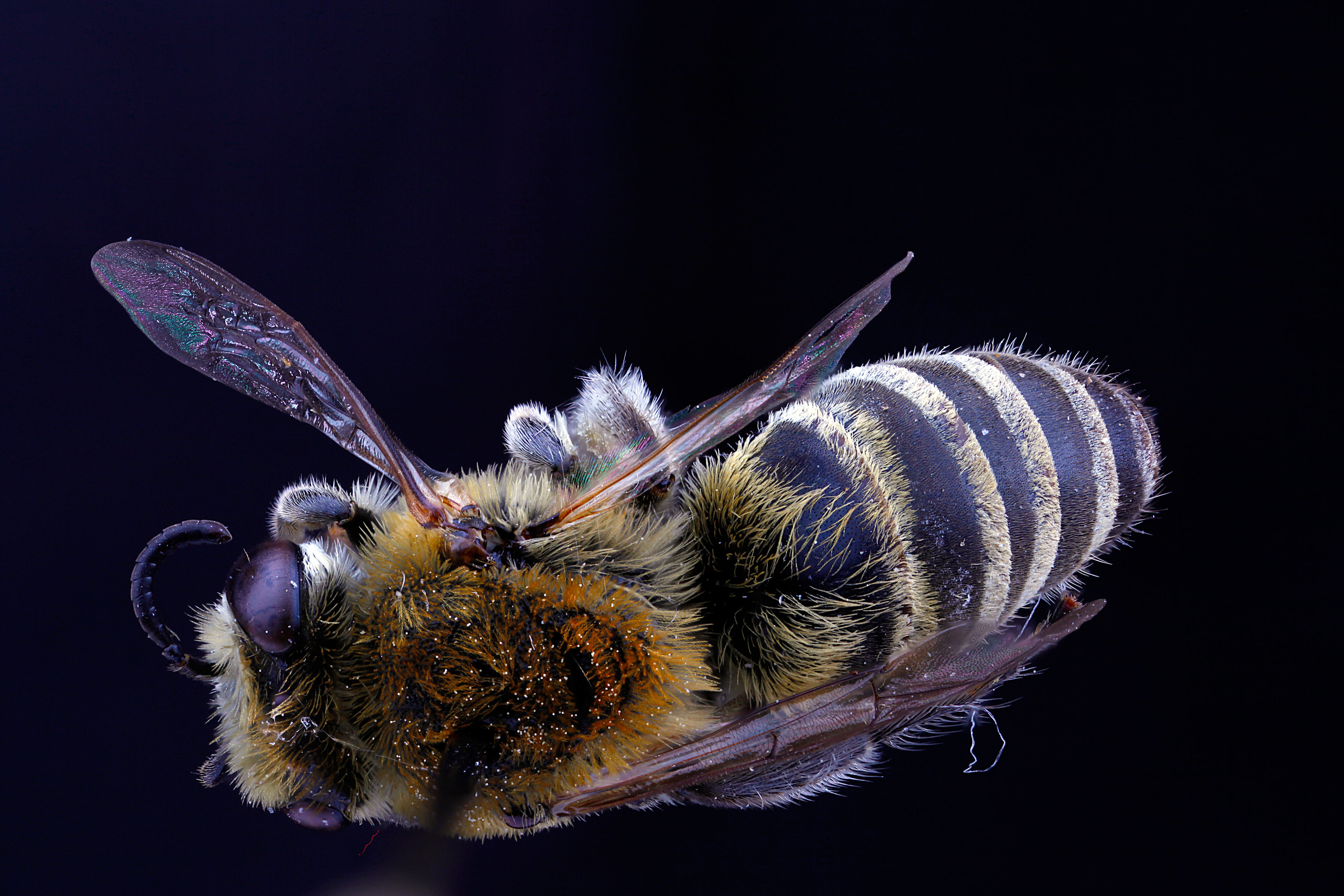 Colletes speculiferus, female, South Carolina